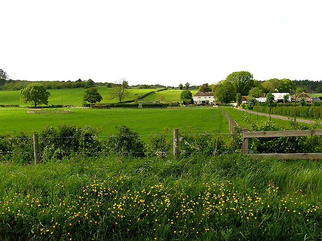 Pangfield Farm near Bucklebury. The farm in the spring sunshine. This view was taken from the west of the drive up to the farm looking in a north westerly direction. The farm is in the middle of the upper half of the grid square.